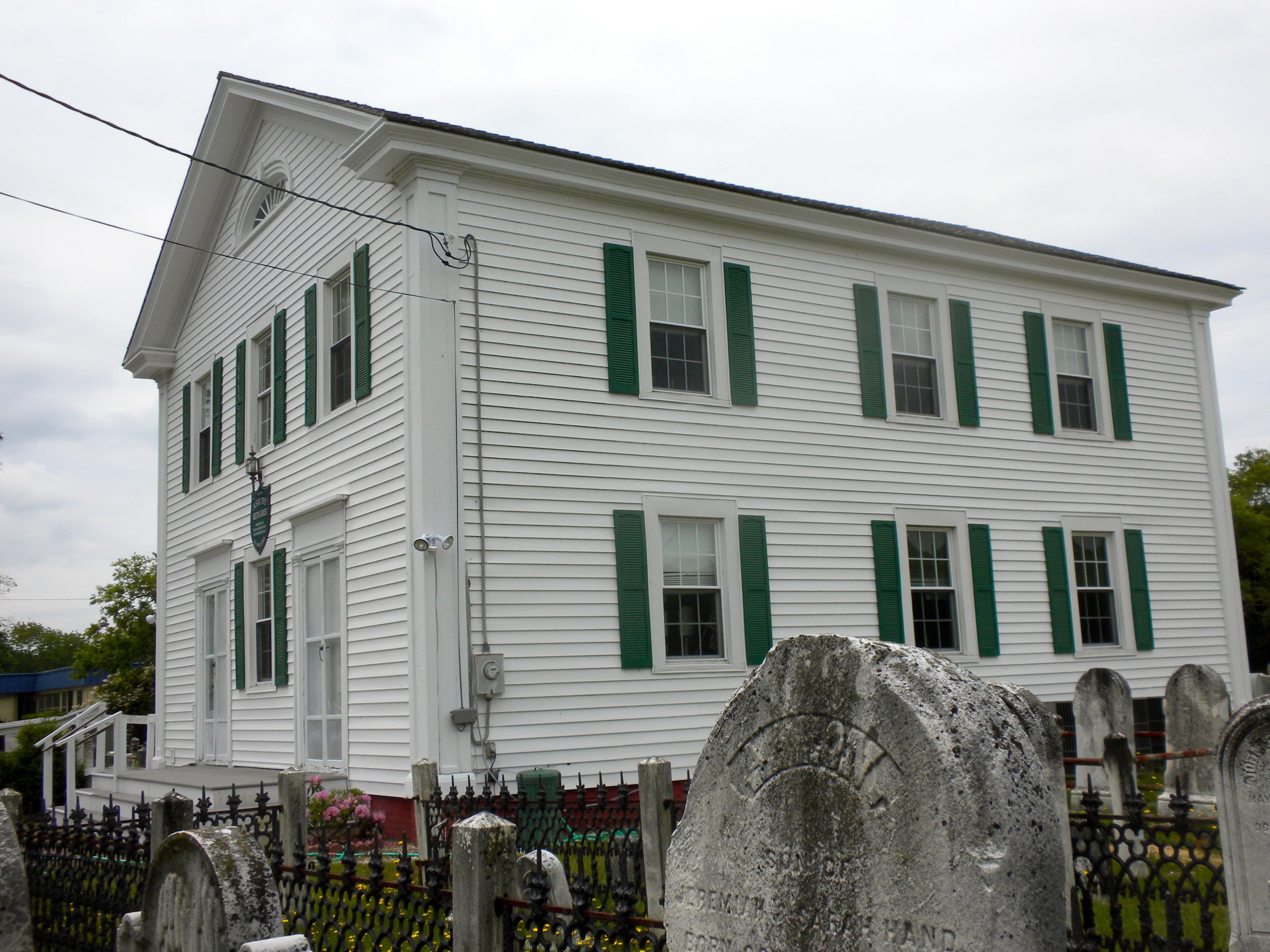 New Asbury Methodist Episcopal Meetinghouse on NRHP since September 17, 1980. On Shore Rd. (NJ 9) north of Cape May Court House.